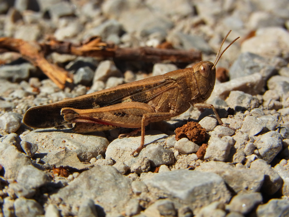 Female Aiolopus strepens, Camì de Binixems near Alaior, Menorca